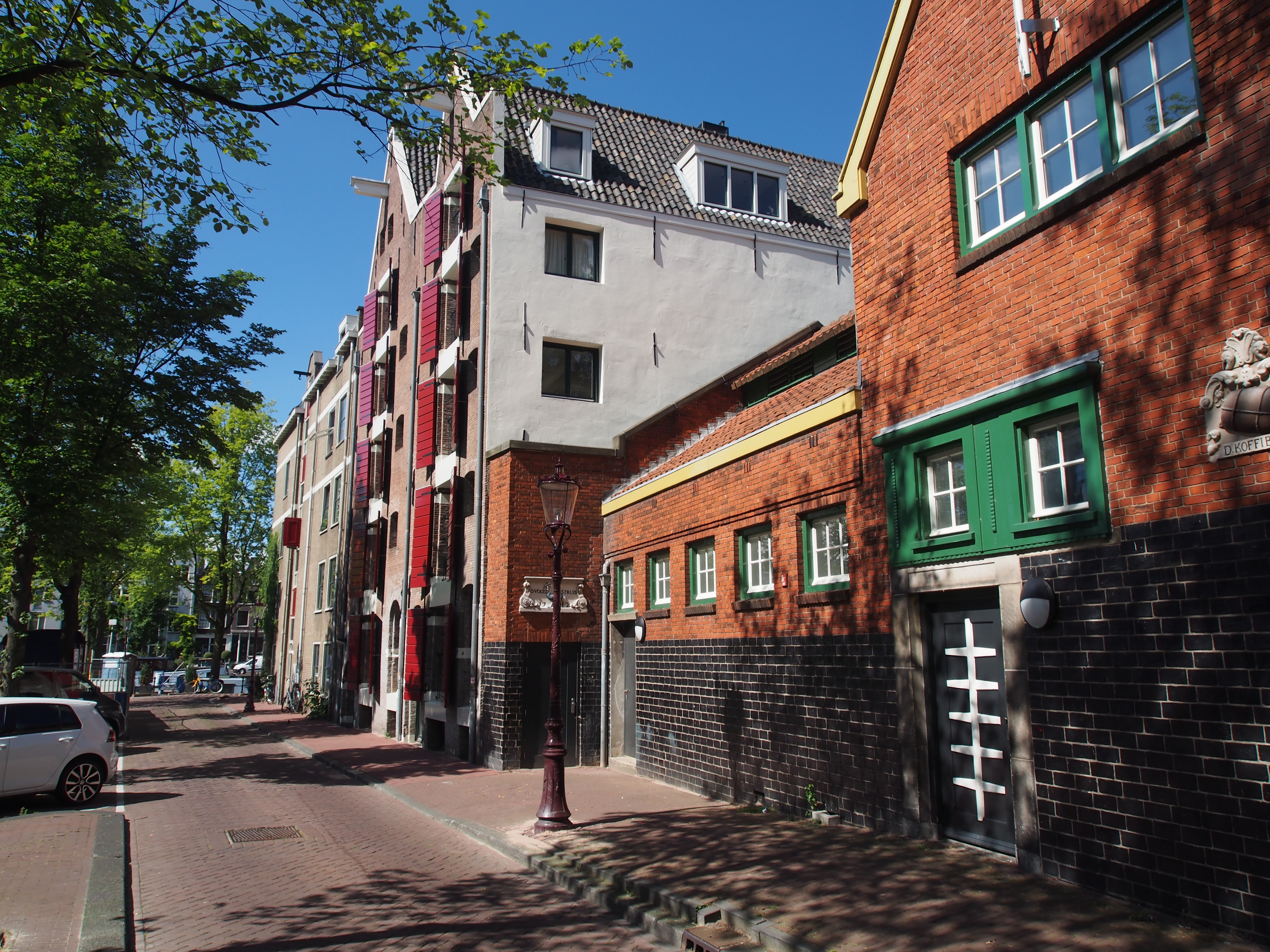 Photographed in Amsterdam.